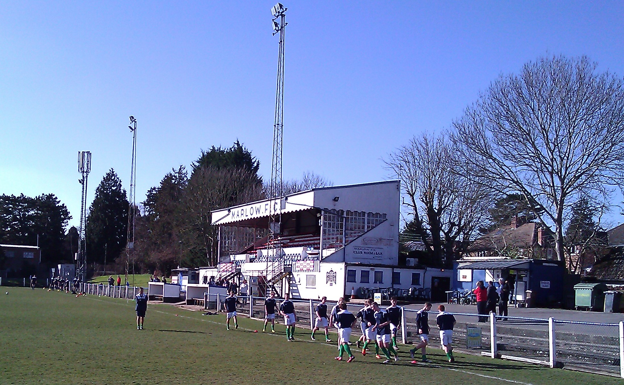 (missing text)